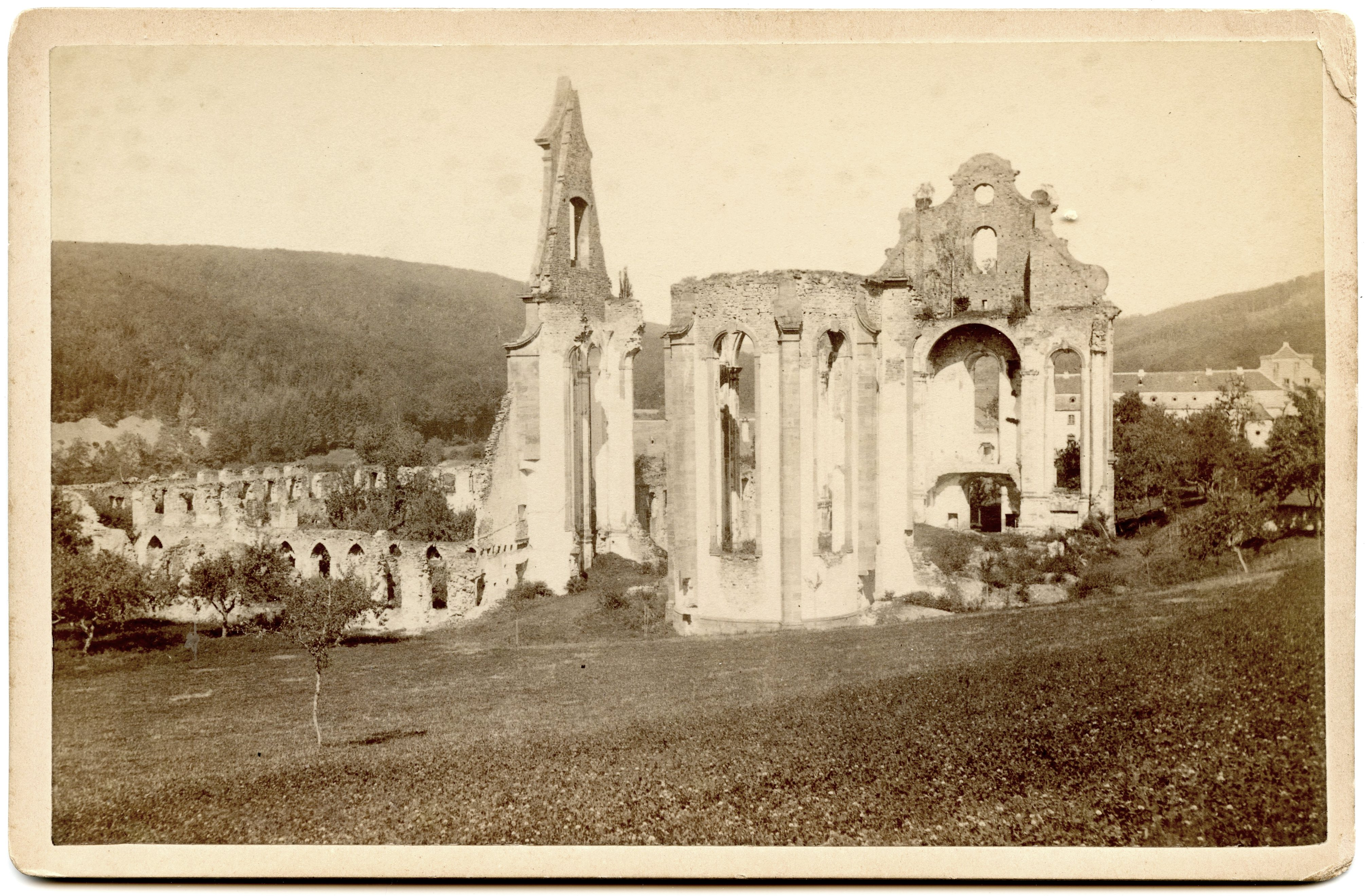 Himmerod Abbey in ruins, 1880s, a cabinet photo by atelier Josef Quirin, Kyllburg (from the collection of Jacek Dehnel)